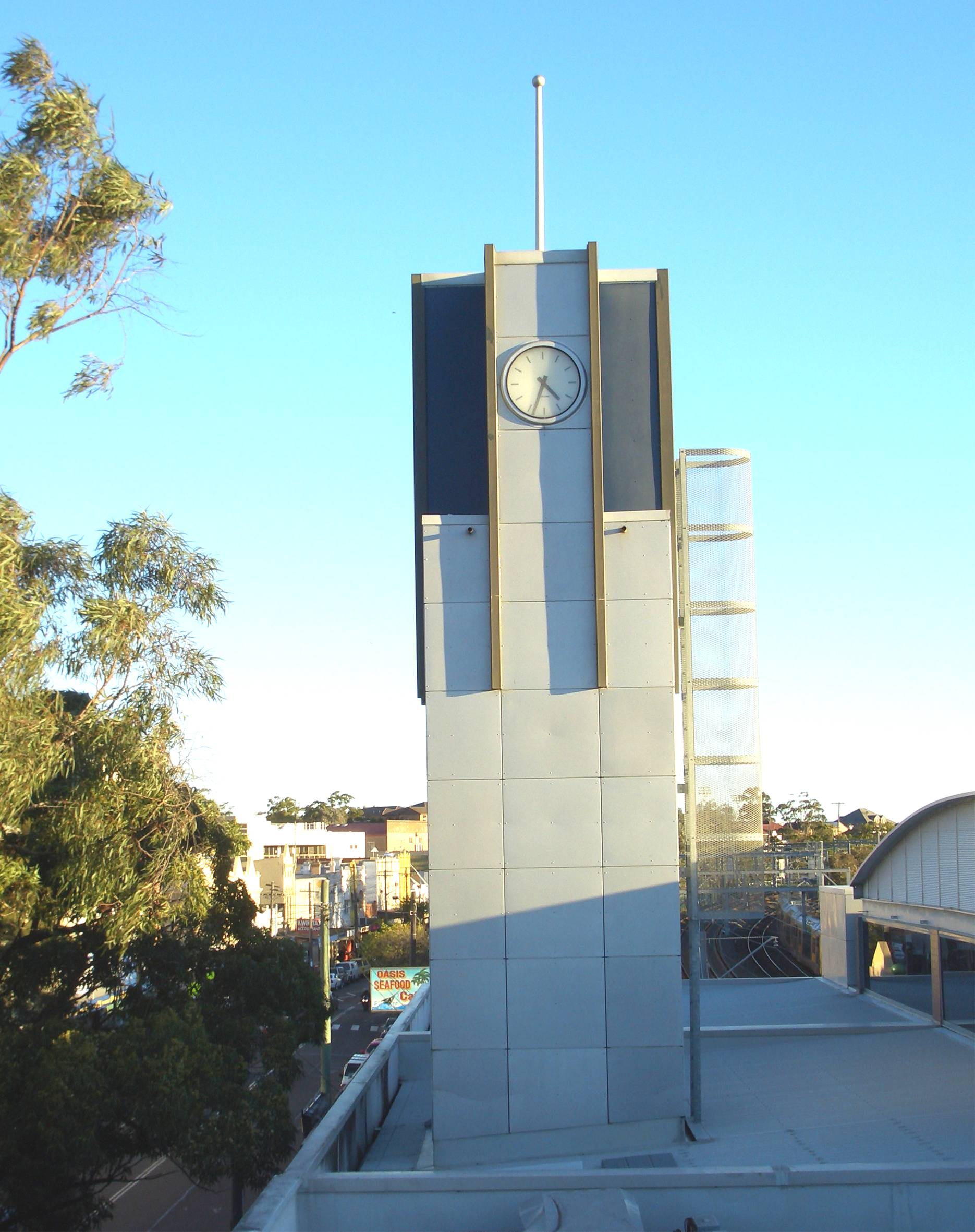 Kogarah railway station, Sydney